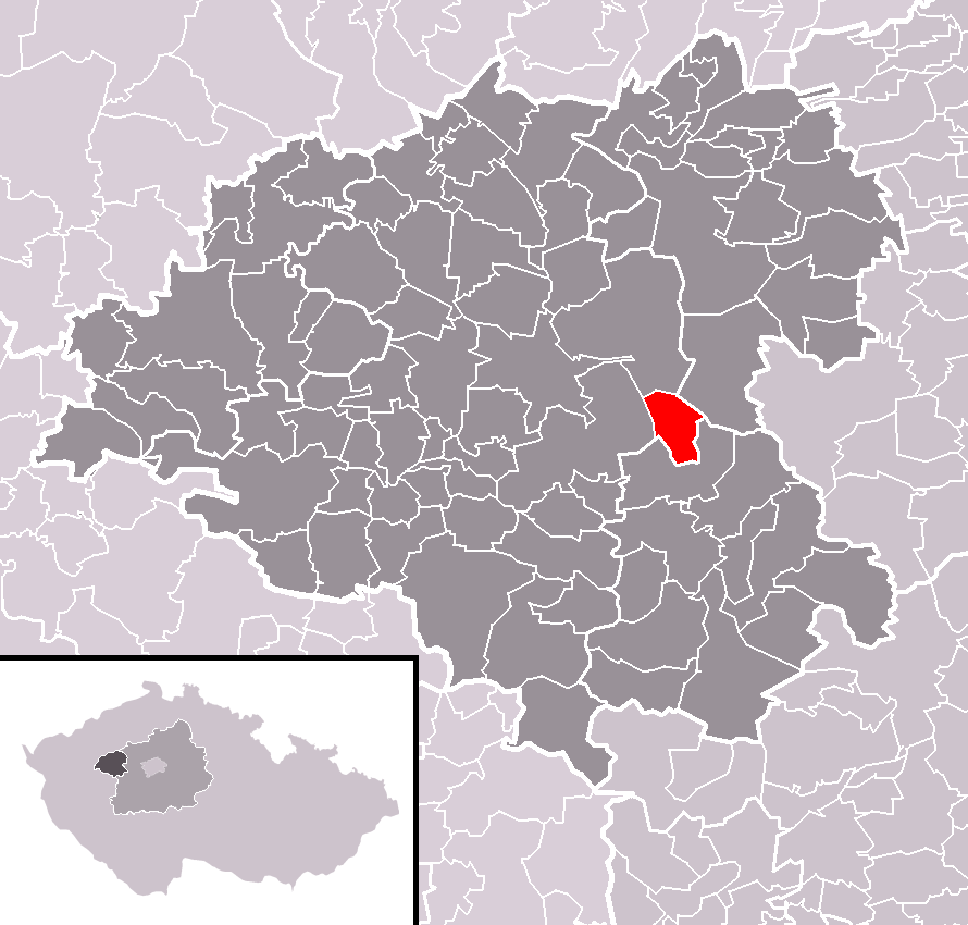 Location of Nový Dům municipality within Rakovník District and (identical) administrative area of Rakovník as a Municipality with Extended Competence.